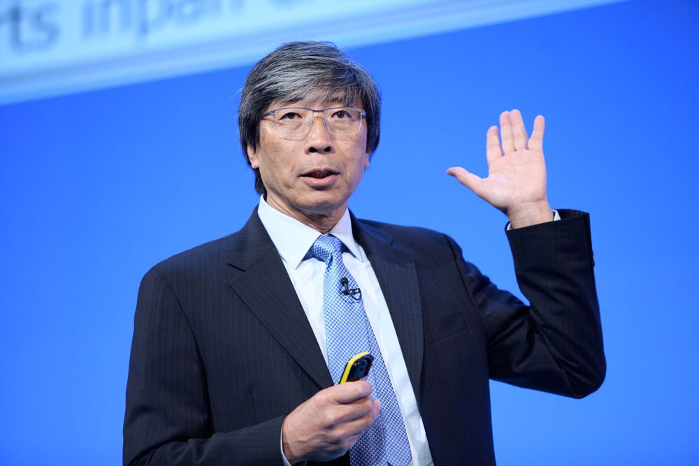 Dr. Patrick Soon-Shiong, physician, surgeon and scientist, addresses delegates on day two of conference.